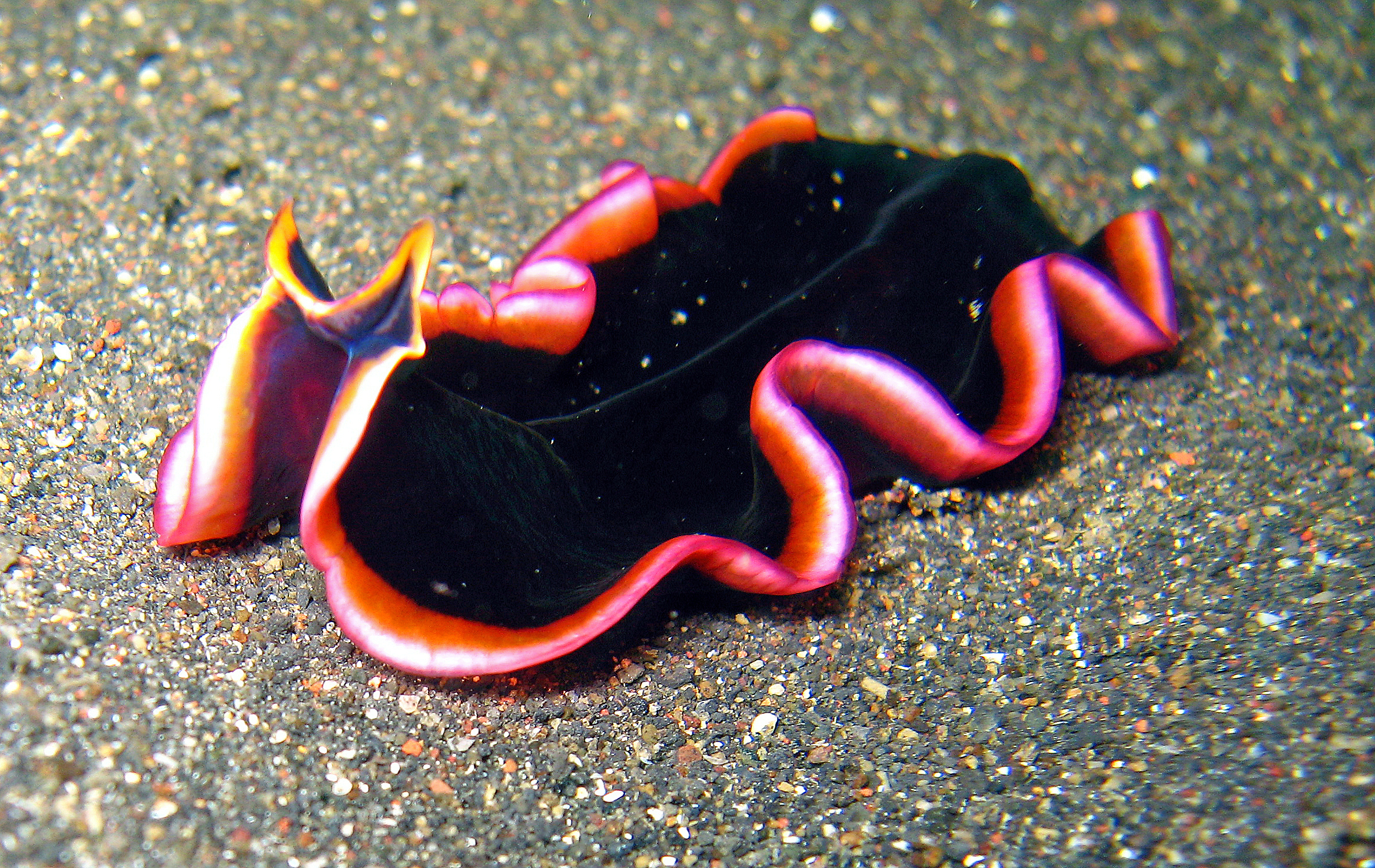 Marine flatworm Pseudobiceros gloriosus. Lembeh straits, North Sulawesi, Indonesia.